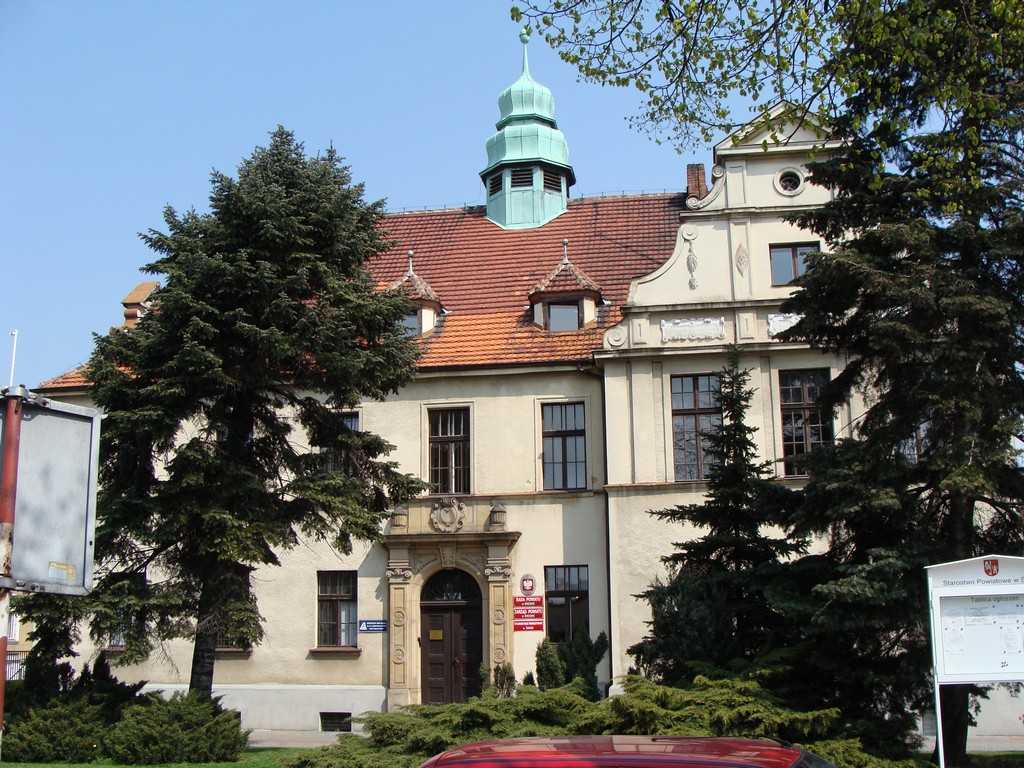 Śrem, powiat office.